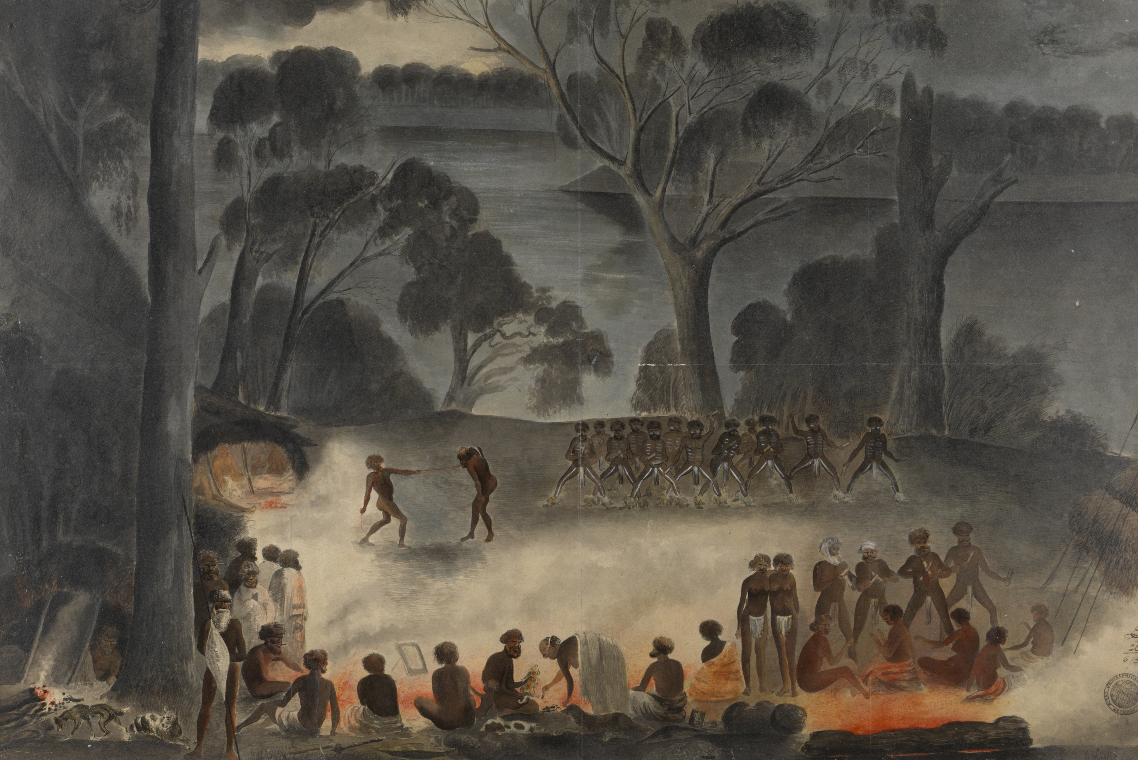 Corroboree on the Murray River, 1858. Watercolour by Gerard Krefft.